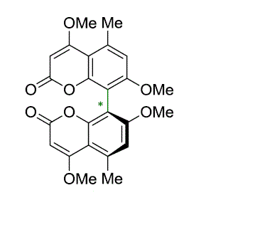 Fused Heterocycles